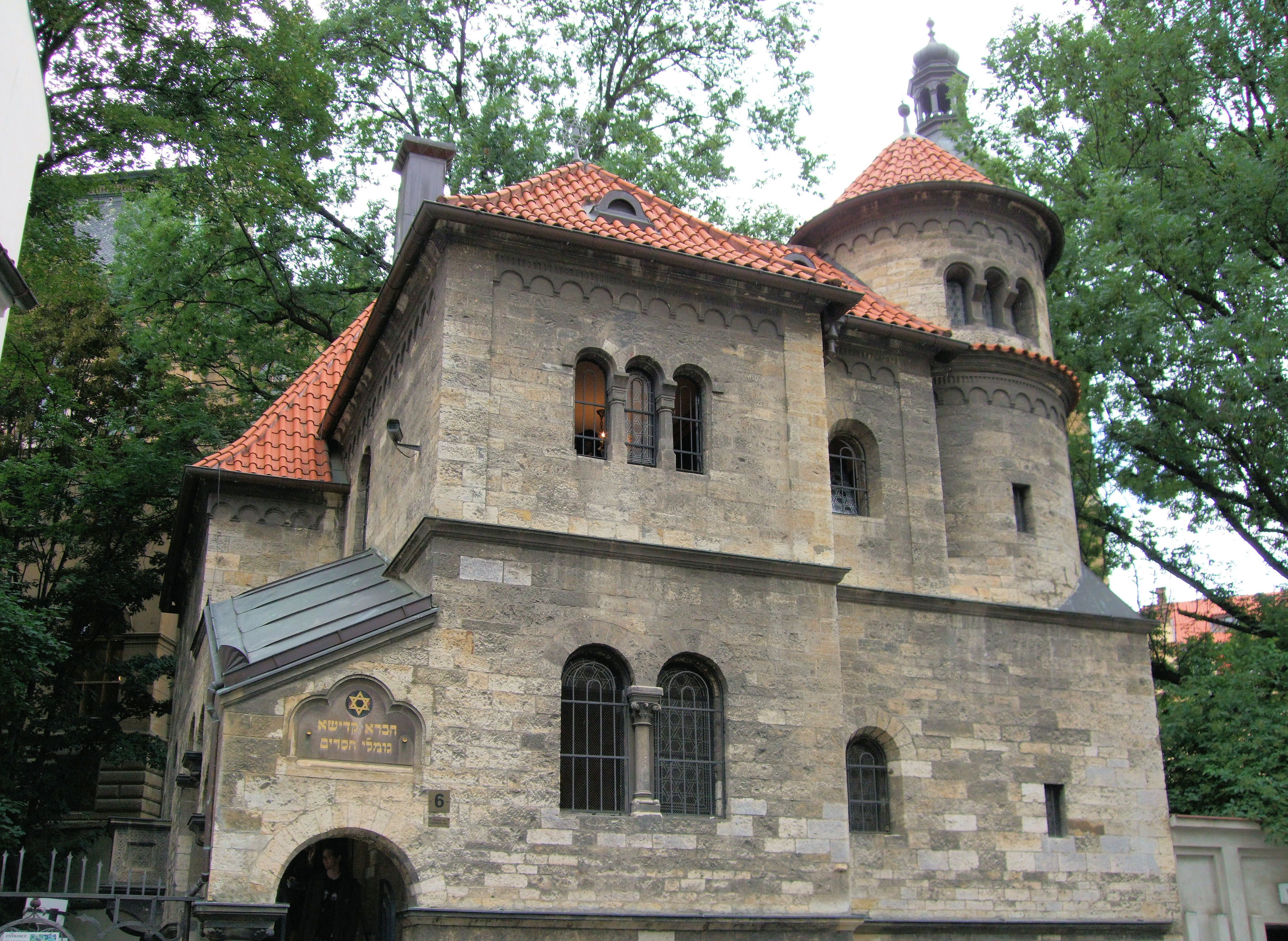 Jewish Ceremonial Hall in Prague, Czech Republic. The Jewish Ceremonial Hall (Obřadní síň in Czech) can be found in the Jewish Quarter (Josefov) of Prague, the capital of the Czech Republic. It was built in 1911-12 under the direction of architect J. Gerstl for the Jewish Burial Society (Hevrah Kaddishah) and is in the neo-renaissance style. Originally used as a ceremonial hall and mortuary it now forms part of The Jewish Museum of Prague holding exhibitions relating to Jewish history.